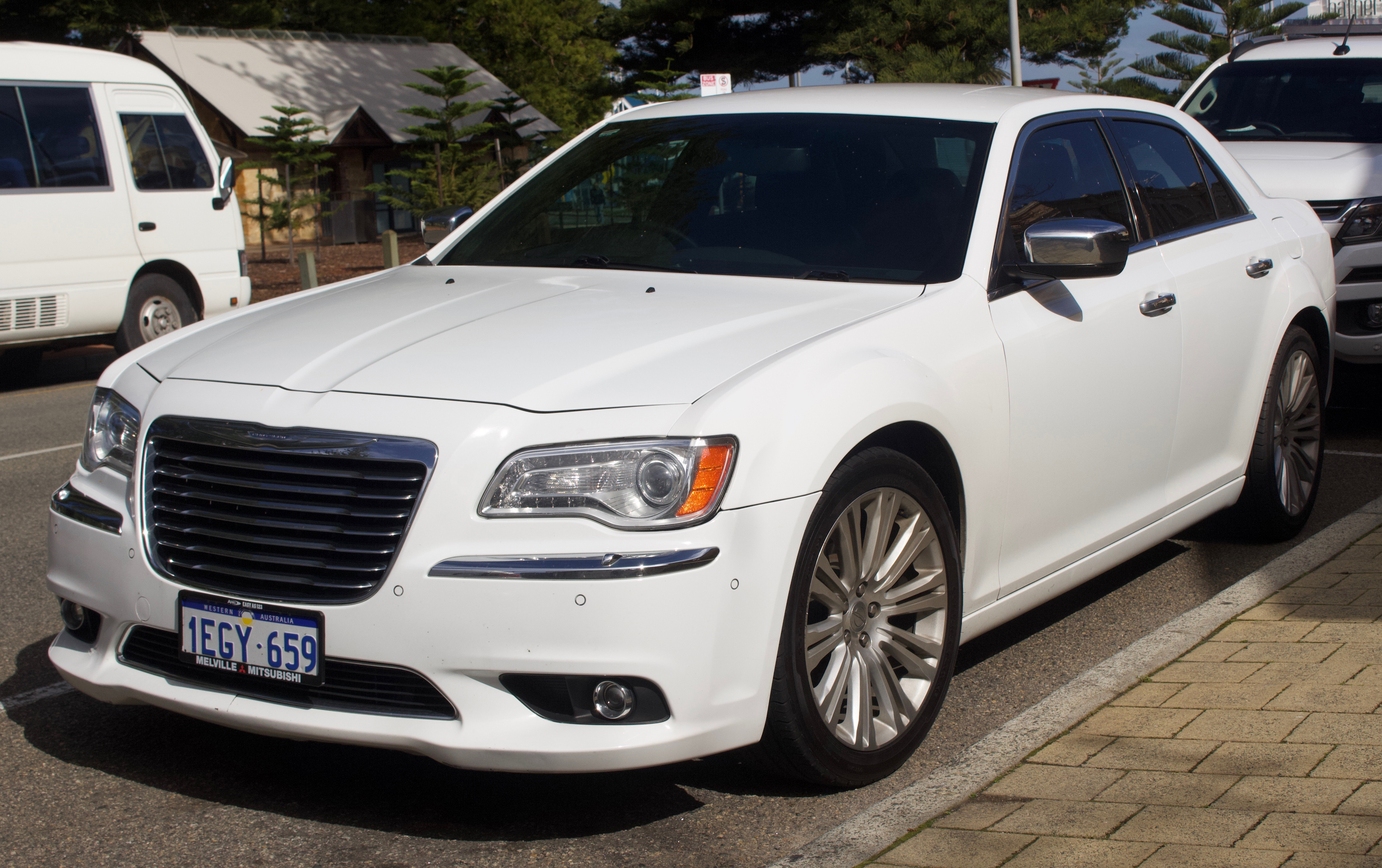 2013 Chrysler 300 (LX MY13) Limited sedan. Photographed in Fremantle, Western Australia, Australia.